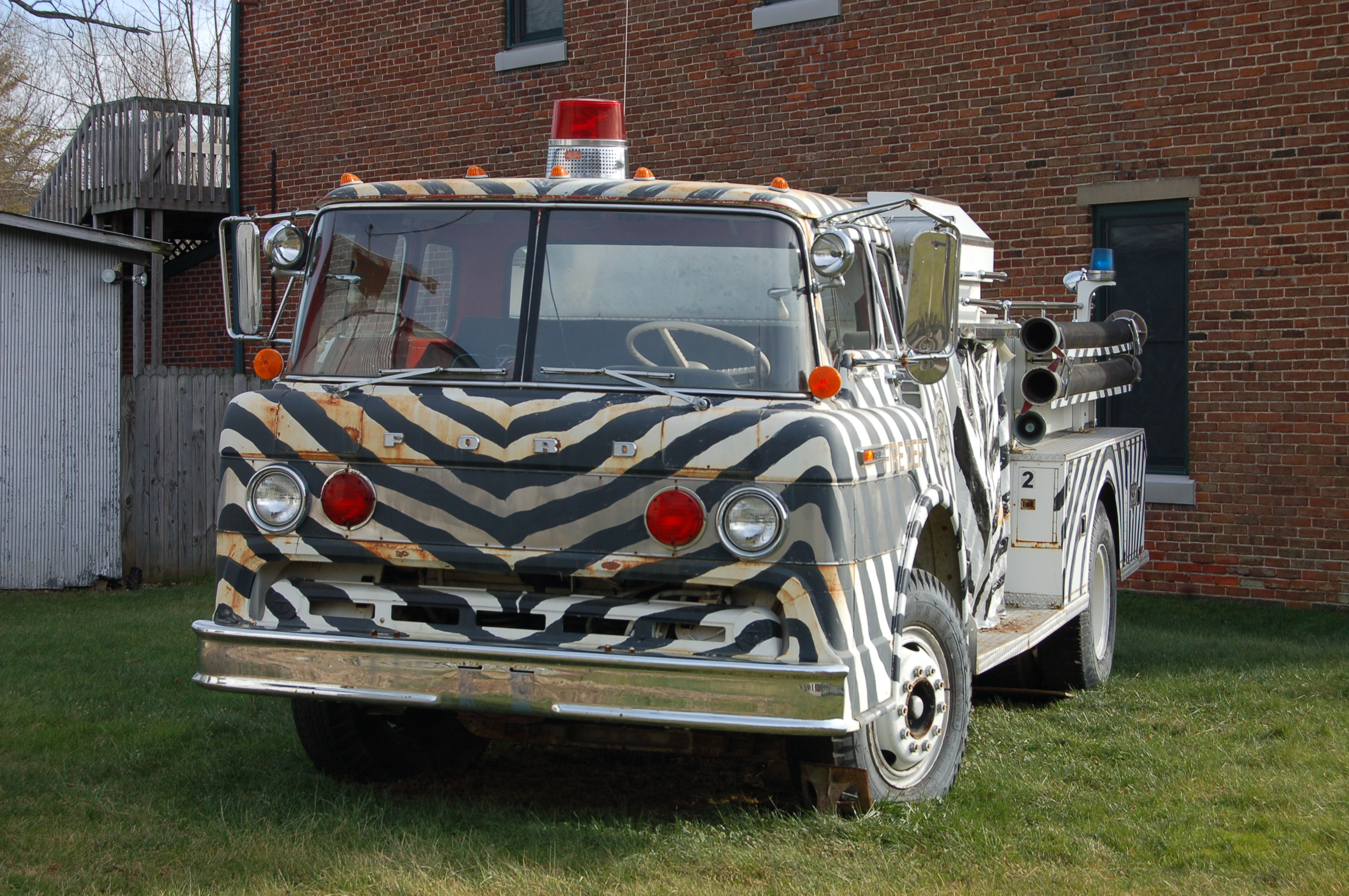 Fire Engine with Zebra Stripe Paint Job.